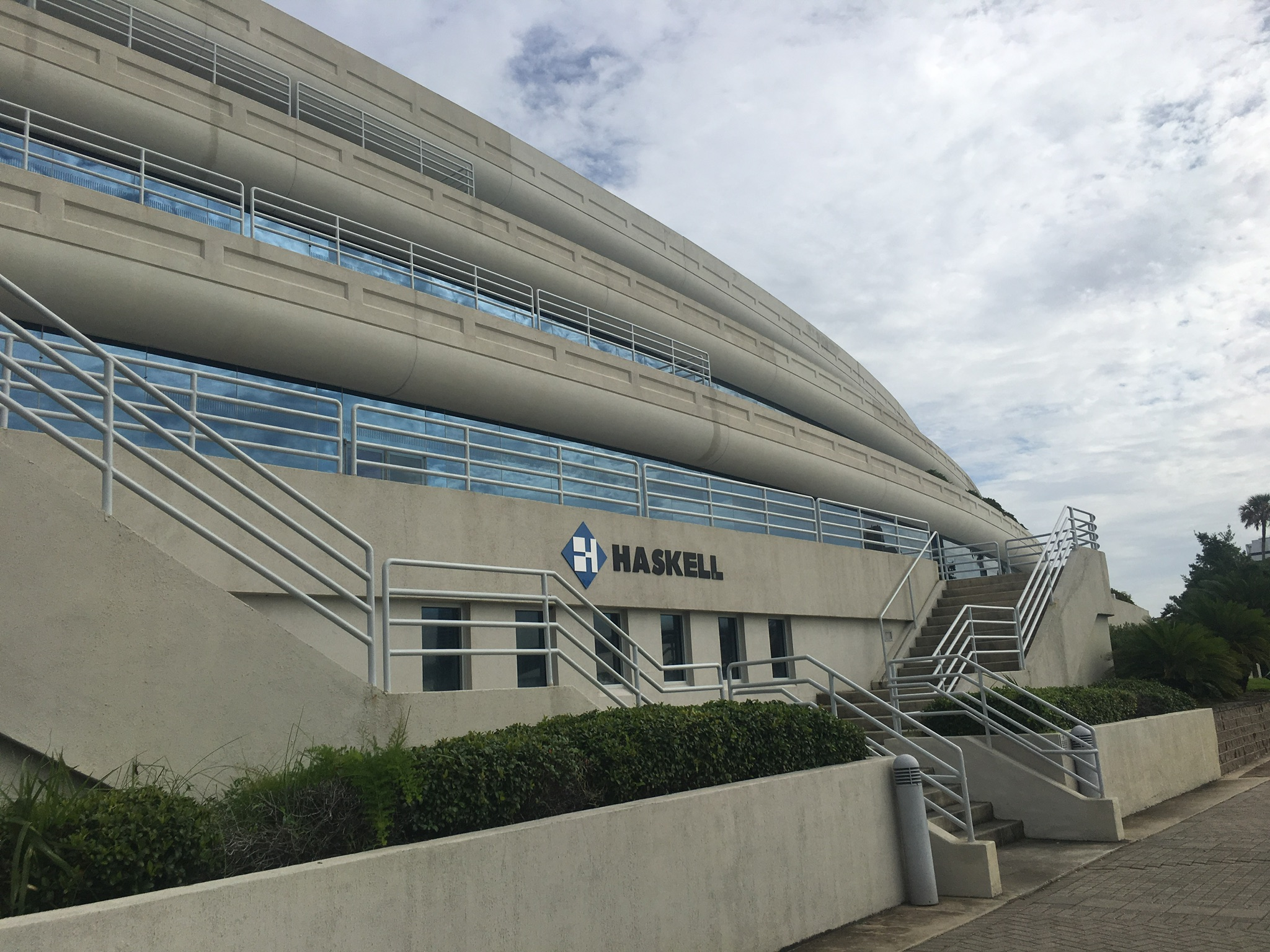 Haskell Headquarters